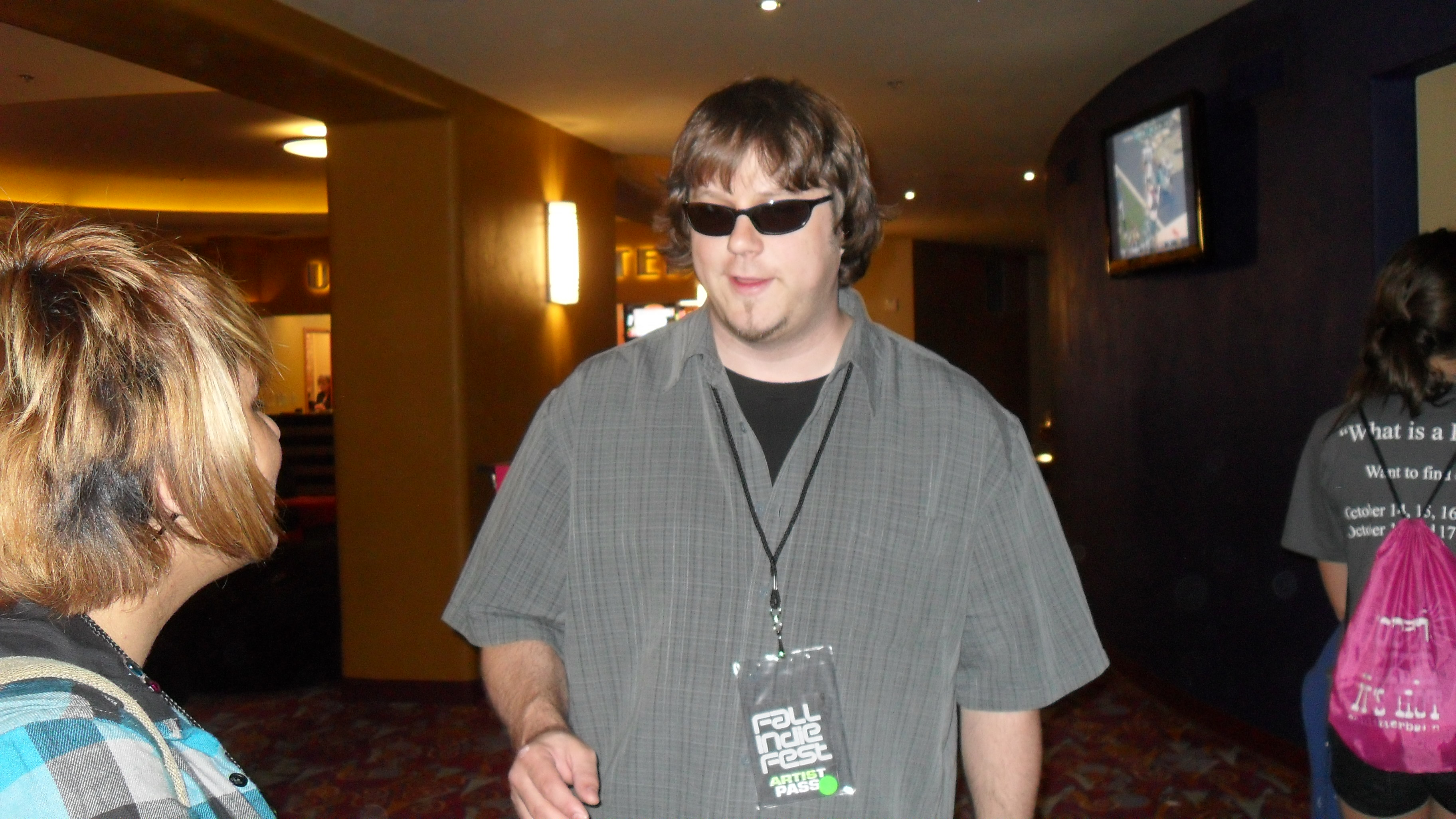 A picture of John Bramblitt at the FallIndieFest 2010 in Grand Prairie, TX